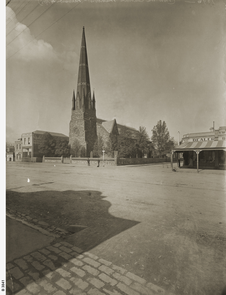 Maughan Church, Adelaide [Ernest Gall collection at the State Library of South Australia B 3841]